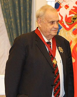 Eldar Ryazanov, a Soviet / Russian film director.